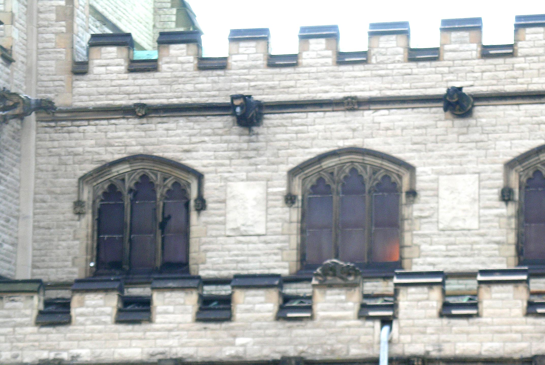 Detail of stonework, Trinity Episcopal Church Detroit